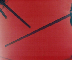 Tunafish cytochrome c (b) crystals grown in the Advanced Protein Crystallization Facility.